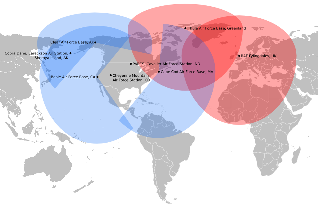 Coverage of radar-based U.S. nuclear missile warning systems.